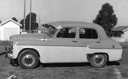 A 1956 Hillman Minx saloon photographed at Sefton, Sydney in 1956